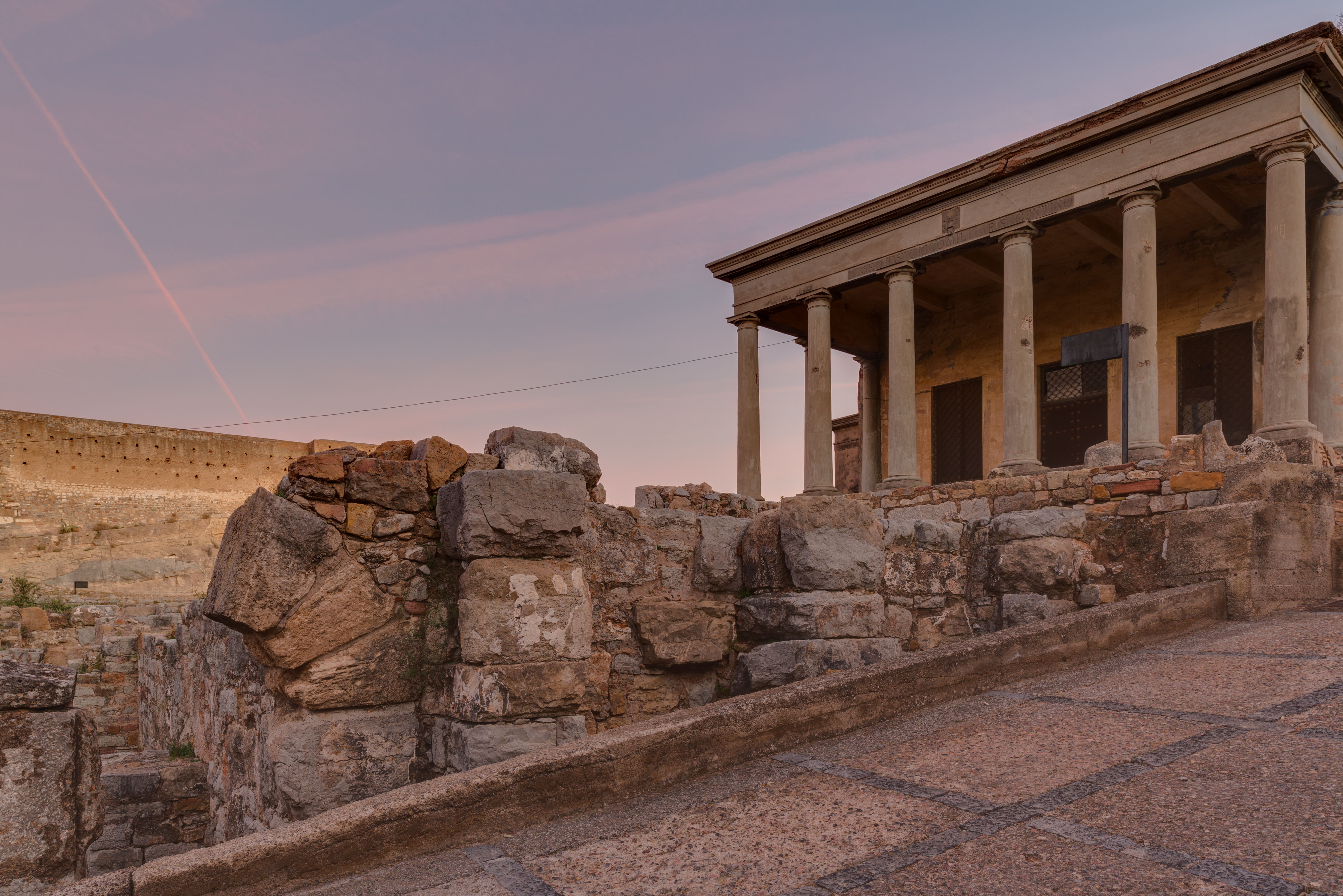 Castle of Sagunto, Valencia, Spain